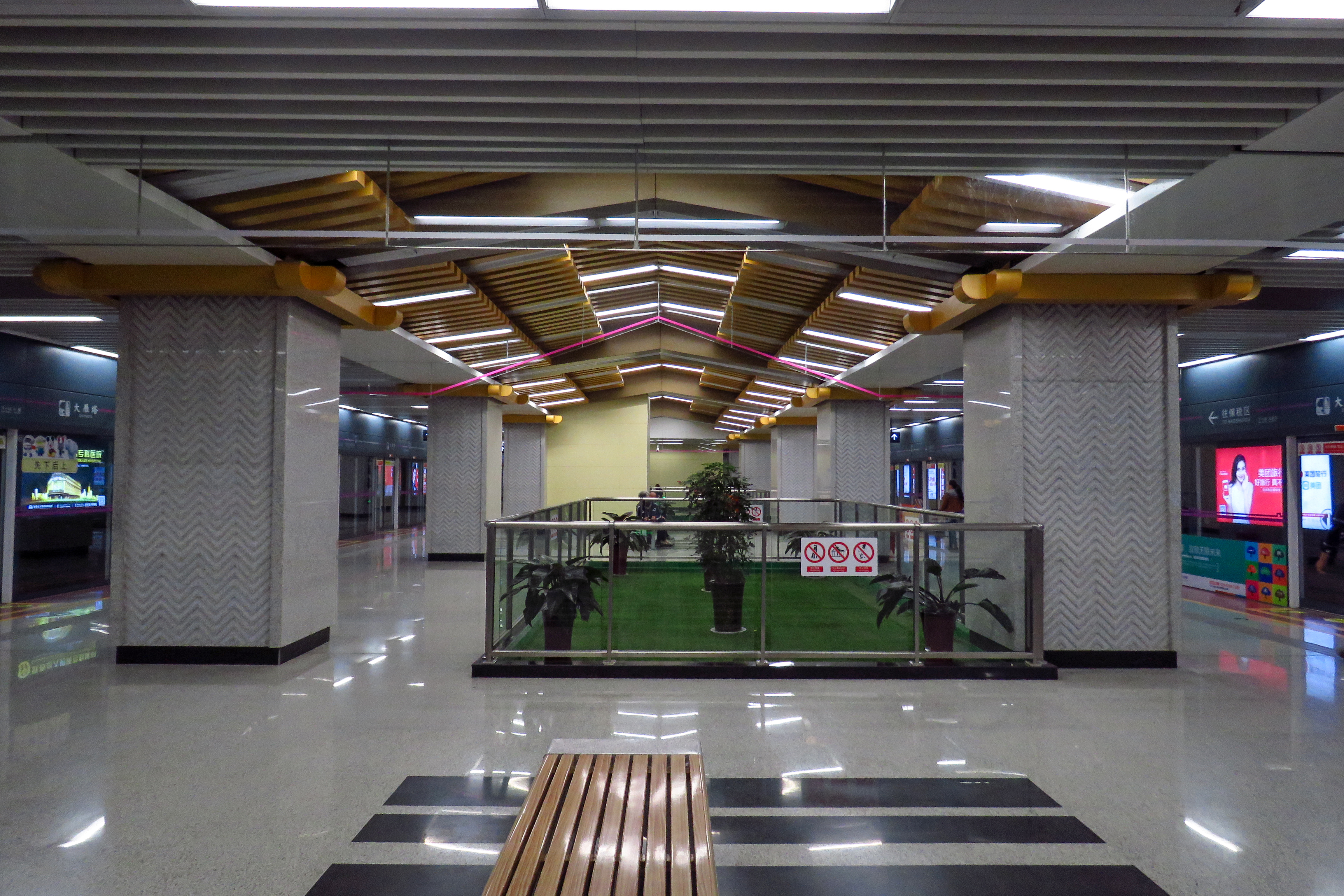 Reserved interchange for Line 4.